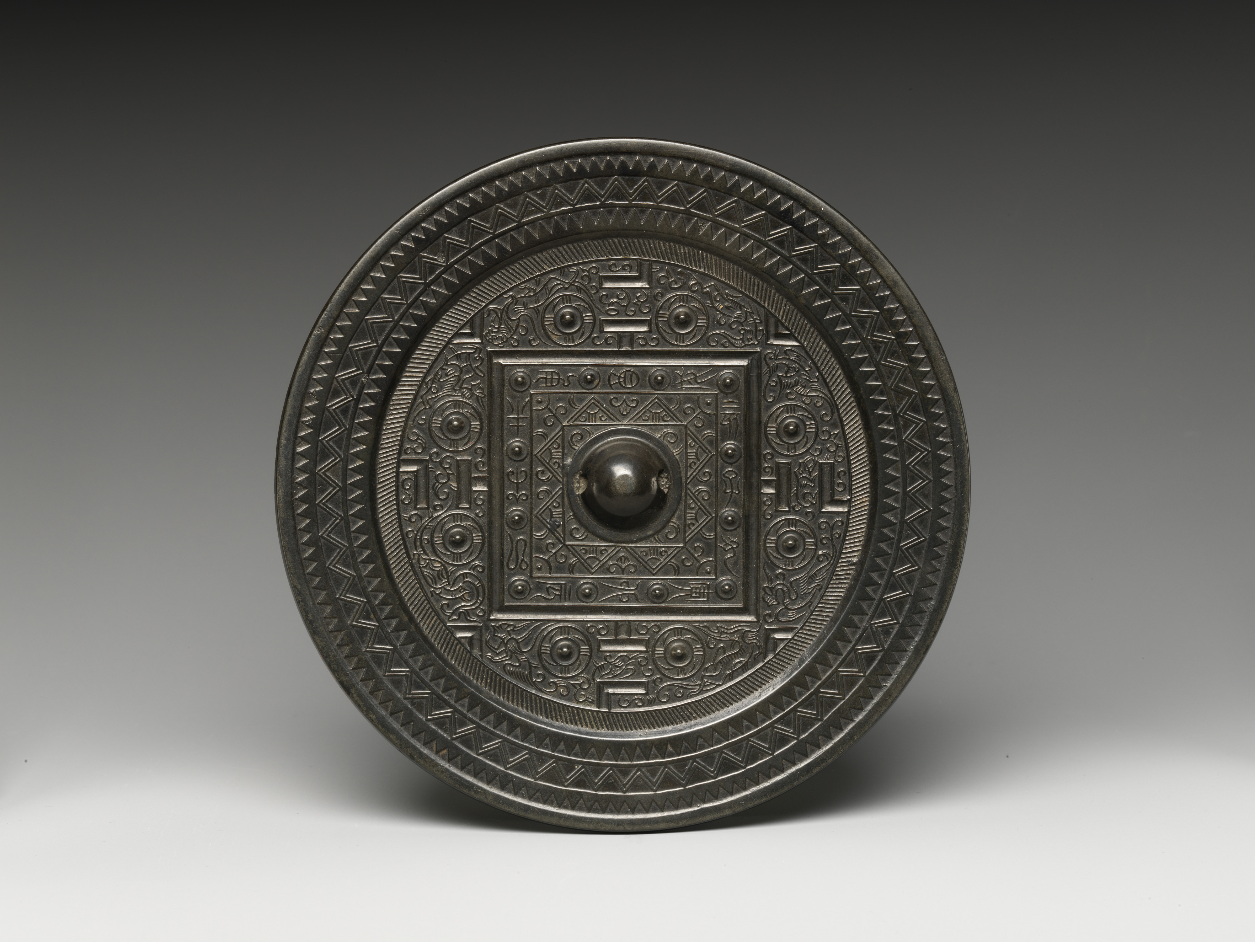 China; Mirror; Mirrors